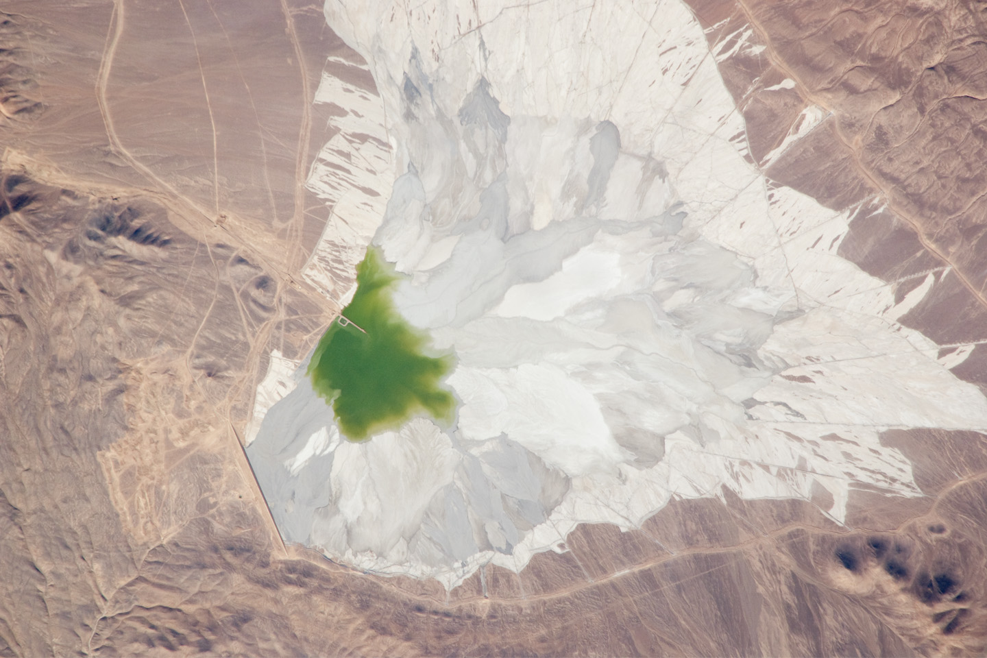 The Escondida copper-gold-silver mine produces more copper than any other mine in the world (1.483 million tons in 2007), amounting to 9.5% of world output and making it a major part of the Chilean economy. The mine is located 170 kilometers (110 miles) southeast of Chile’s port city of Antofagasta, in the hyper-arid northern Atacama Desert at an elevation of 3,050 meter (10,010 feet) above sea level. This astronaut photograph features a large impoundment area (image center) containing light tan and gray waste materials (“spoil”) from of the Escondida mine complex. The copper-bearing waste, which is a large proportion of the material excavated from open pit excavations to the north (not shown), is poured into the impoundment area as a liquid (green region at image center), and dries to the lighter-toned spoil seen in the image. The spoil is held behind a retaining dam, just more than 1 kilometer (0.6 miles) long, visible as a straight line at image lower left.